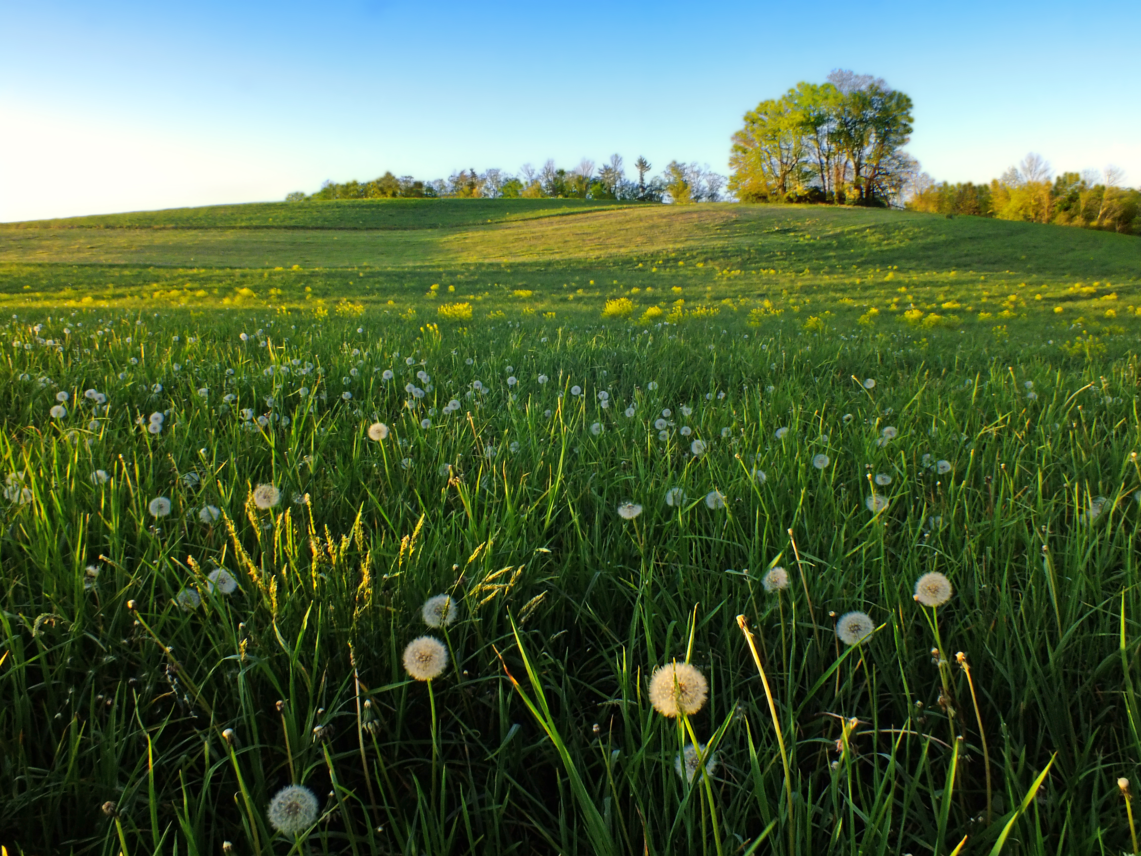 Mount Pleasant Township, Columbia County.